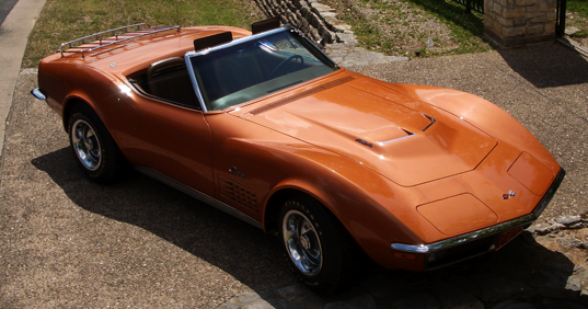 Photo taken 5/22/06 by Reid Sullivan of 1971 LS5.